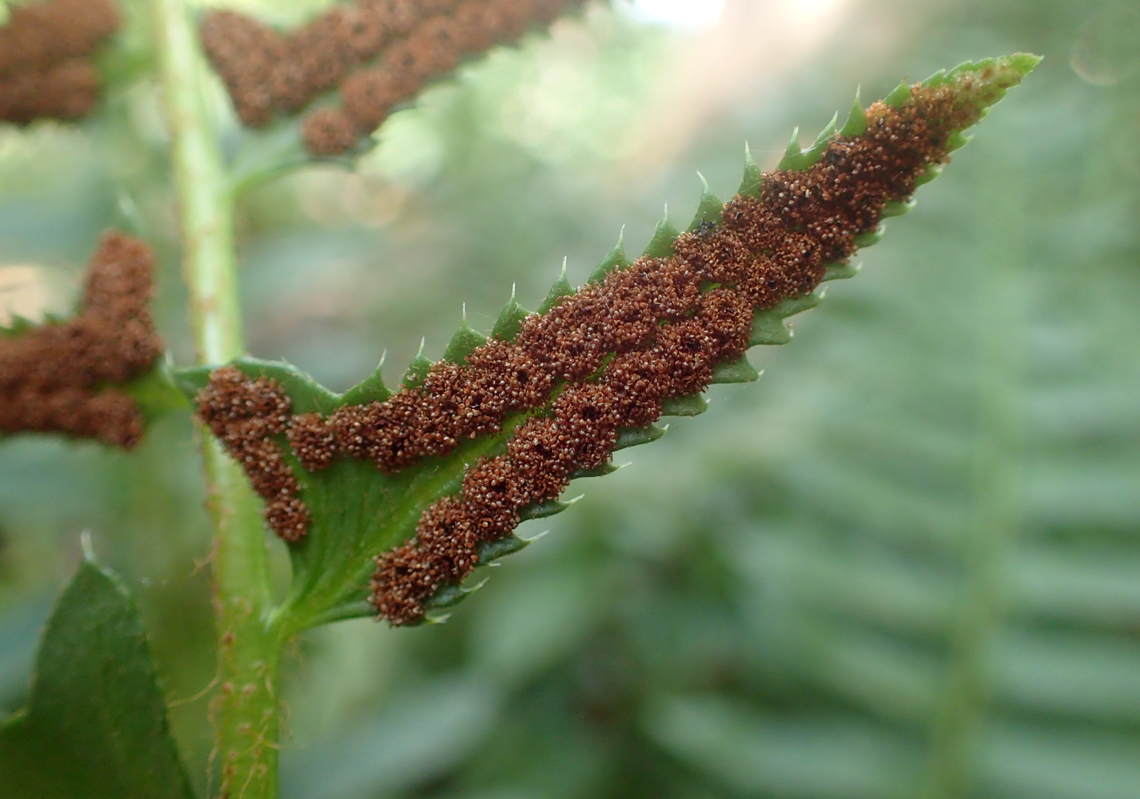 Polystichum acrostichoides in the Missouri Botanical Garden, St. Louis